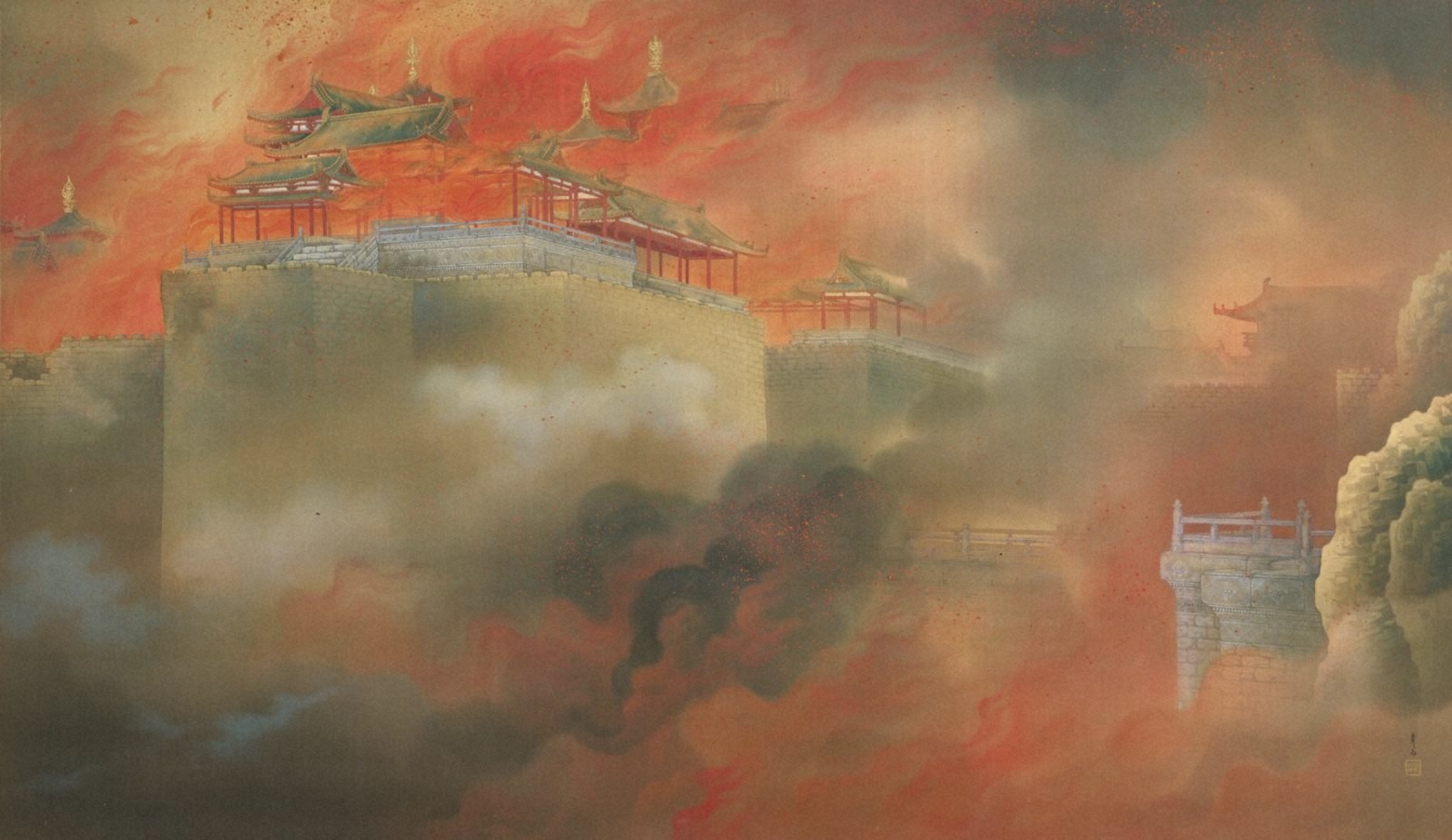 Fire Destroying the Epang Palace, by Kimura Buzan, The Museum of Modern Art, Ibaraki, Mito, Ibaraki, Japan